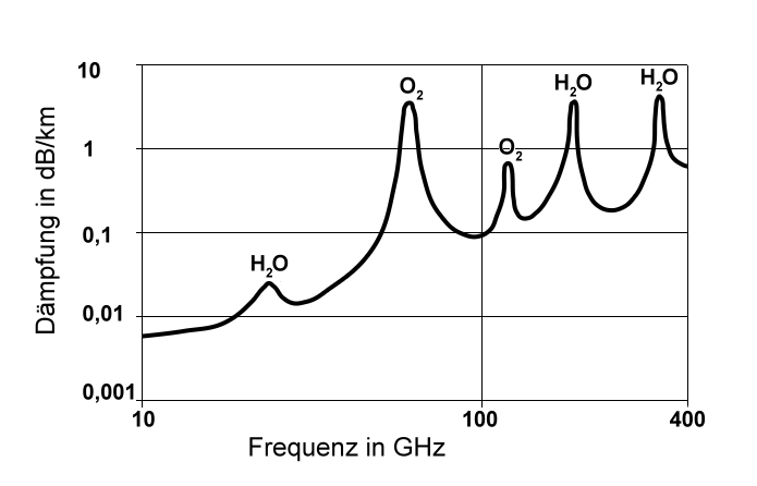 Frequency dependent attenuation of electromagnetic radiation in standard atmosphere. Main absorption lines: O2: 60 GHz, 118,75 GHz H2O: 22.235 GHz, 183.31 GHz, 325.153 GHz Standard atmosphere: 1013 hPa, 15°C, 7.5mg/m³ H2O vapor on earth surface Own drawing (Dantor 2006)